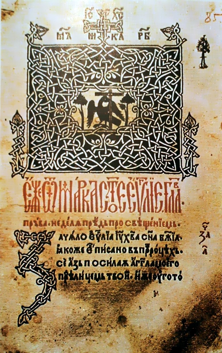 First page of Macarie's «Liturghier»